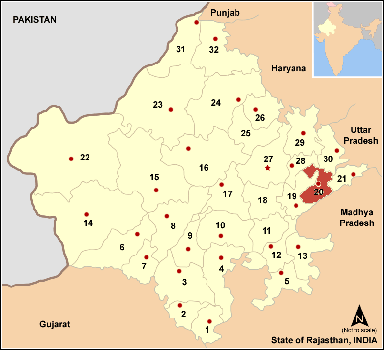 district of Rajasthan